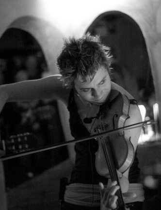 Sophie Solomon performing at the Fez Club, Cambridge.